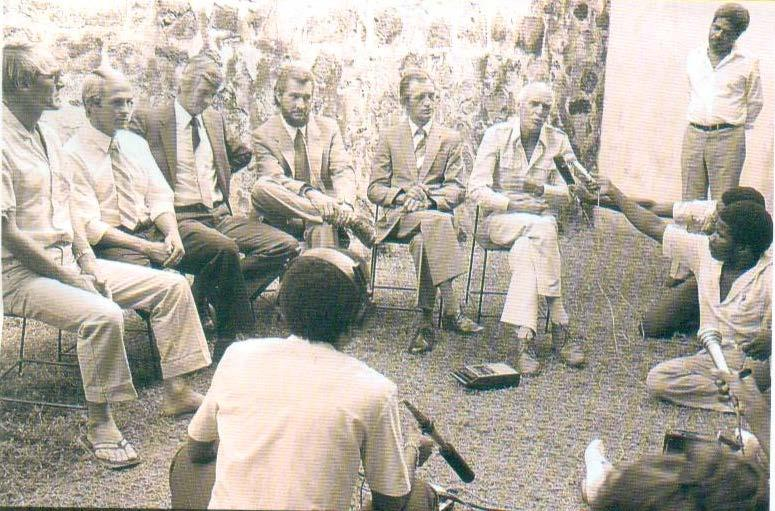 The South African Mercenaries being interviewed by Local Journalist